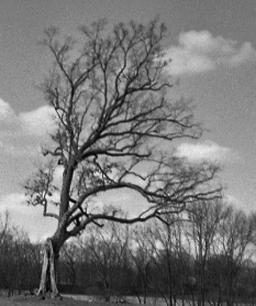 Black and white image of the iconic tree from The Shawshank Redemption located in Lucas, Ohio. Photo was after the 2011 lightning strike which split the tree in half. Image was cropped from the original.